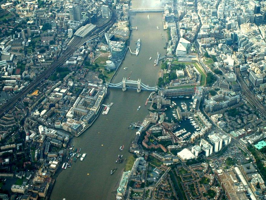 Photo by User:Lumidek released into the public domain by author, "I took the picture in 2004 and release it into the public domain. Lubos Motl, Lumidek"